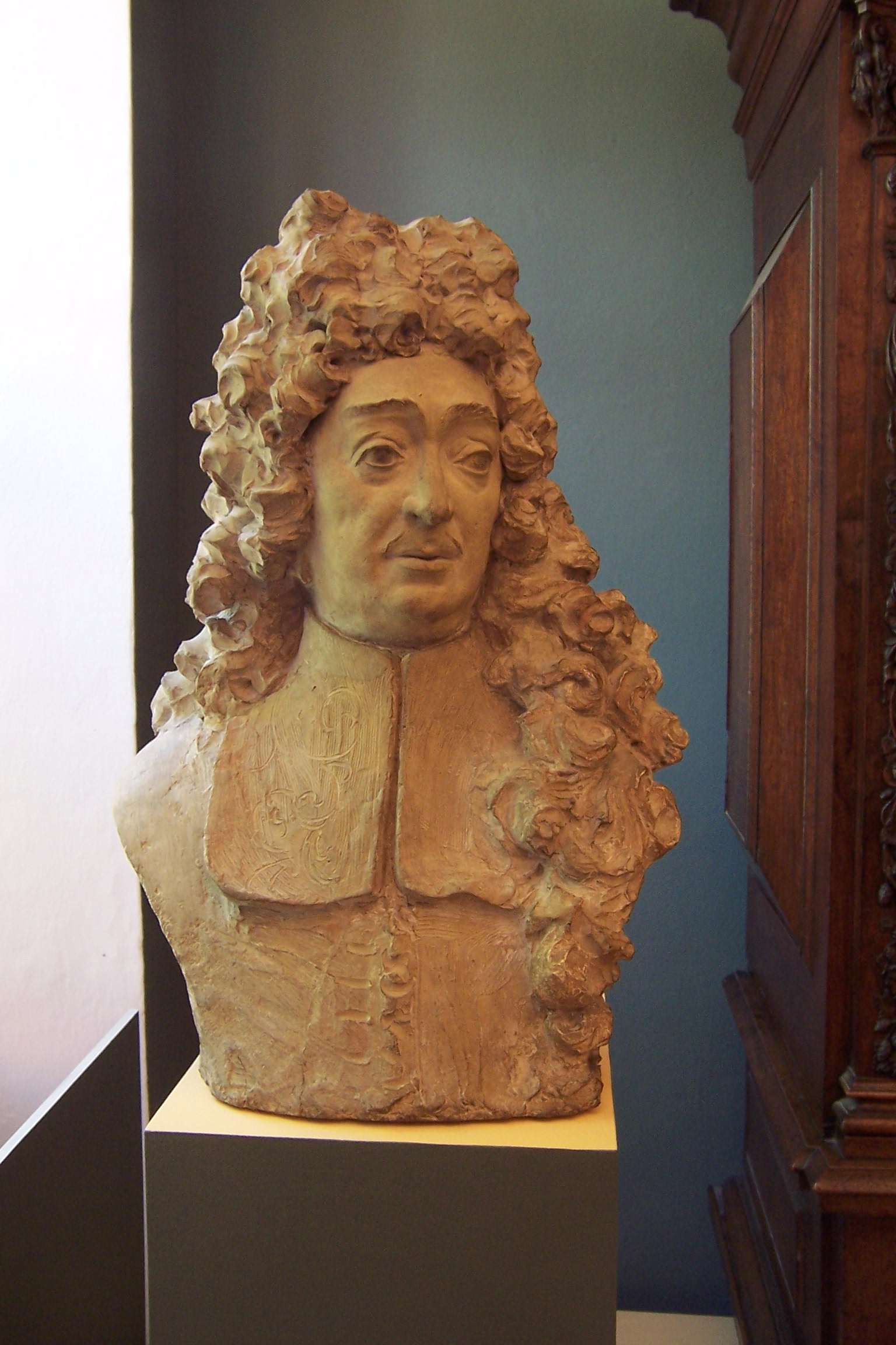 Part of the Fredenhagen-Altar in St. Marien, damaged in 1942, on display in St. Annen-Museum in 2009